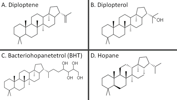 A. Diploptene, also called 22(29)-hopene B. Diplopterol, the hydrated form of diploptene C. Bacteriohopanetetrol (BHT), a common extended hopanoid D. Hopane, the diagenetic product of A, B, and C